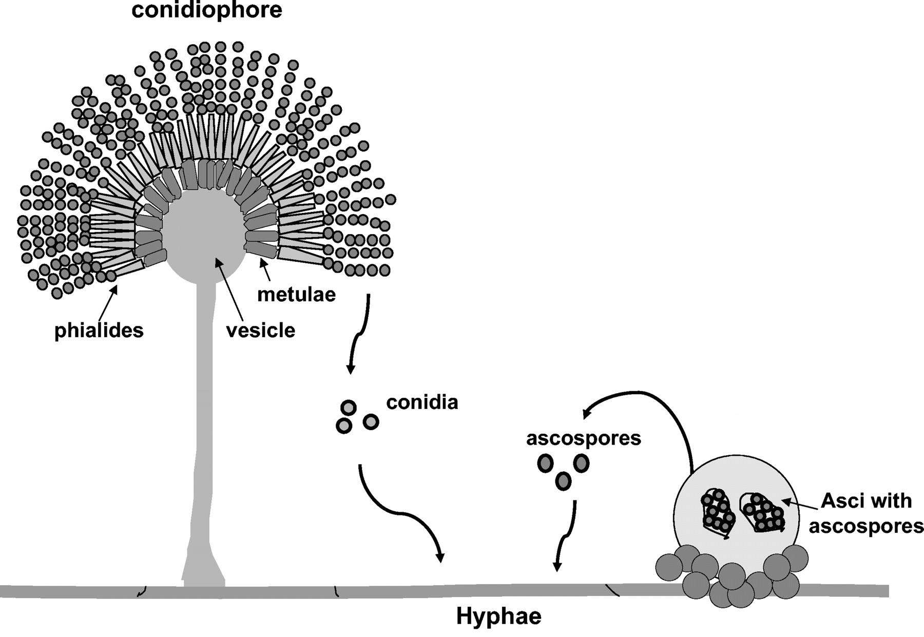 Conidia Formation Image